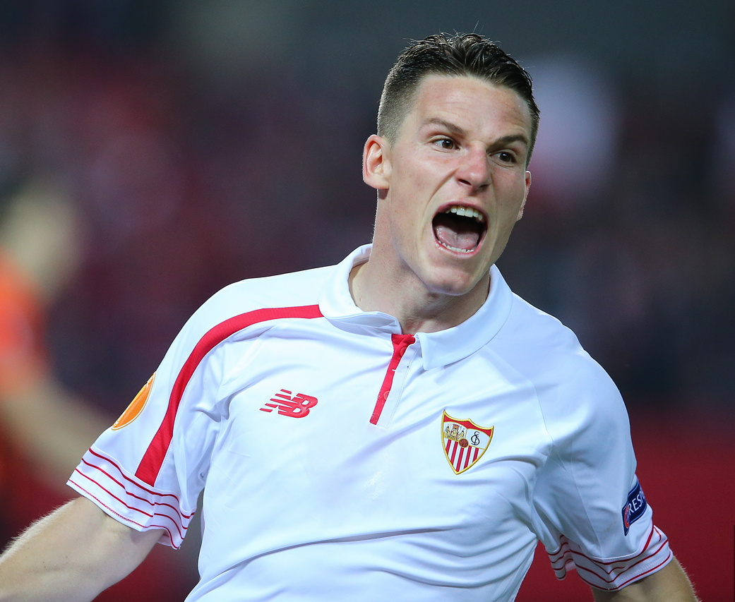 UEFA Europa League 2015/16. Semi-finals. Return leg. May 5, 2016. Spain. Seville. Ramon Sanchez Pizjuan